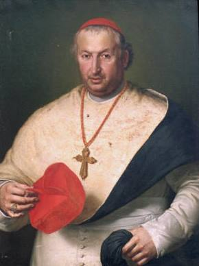 Cardinal Giuseppe Maria Velzi